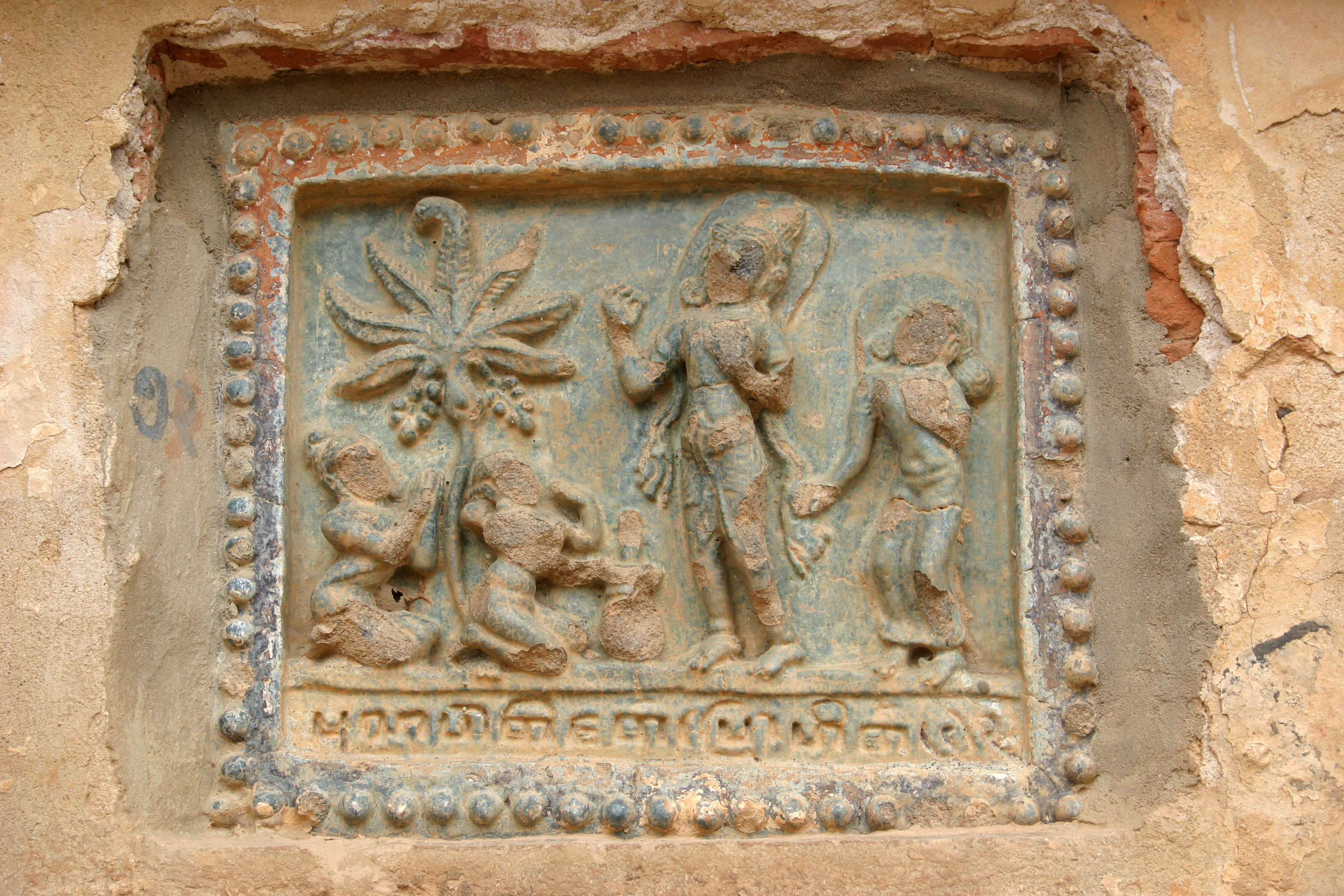 Mingalazedi temple, Bagan, Myanmar.